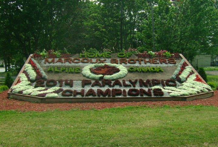 Flower bed at Pim Street hill, honouring the Marcoux Brothers, paralympic alpine skiing champions.